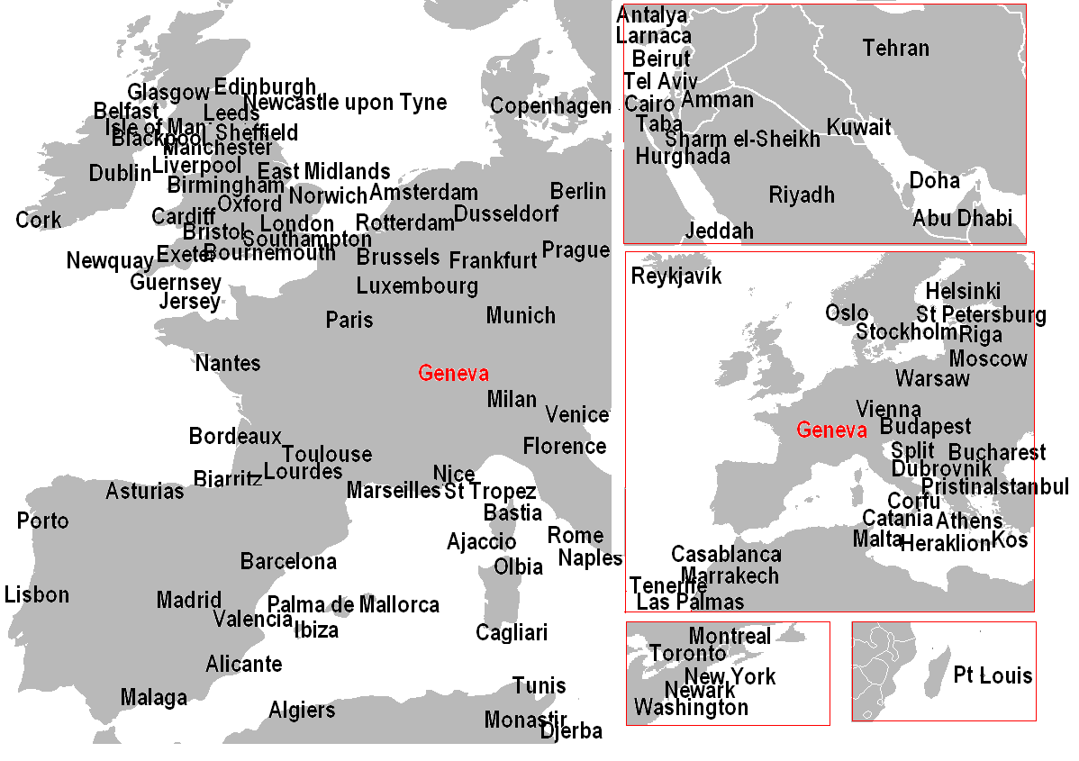 Cities with direct international airlinks with GVA